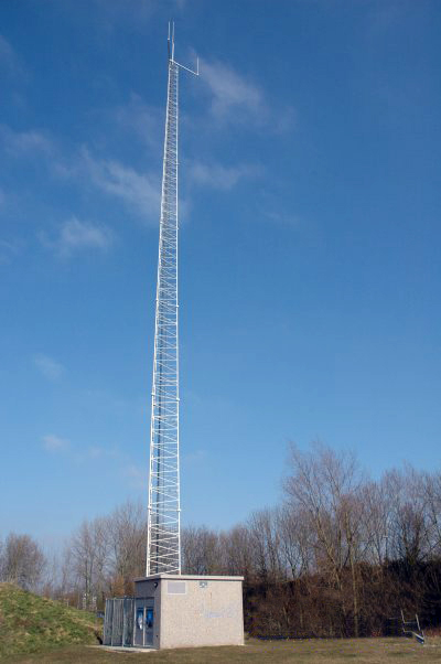 TETRA Transceiver station This station is a part of the C2000 radio network for public safety services in The Netherlands. Photographer: Wilbert van de Kolk Date: March 18th, 2006